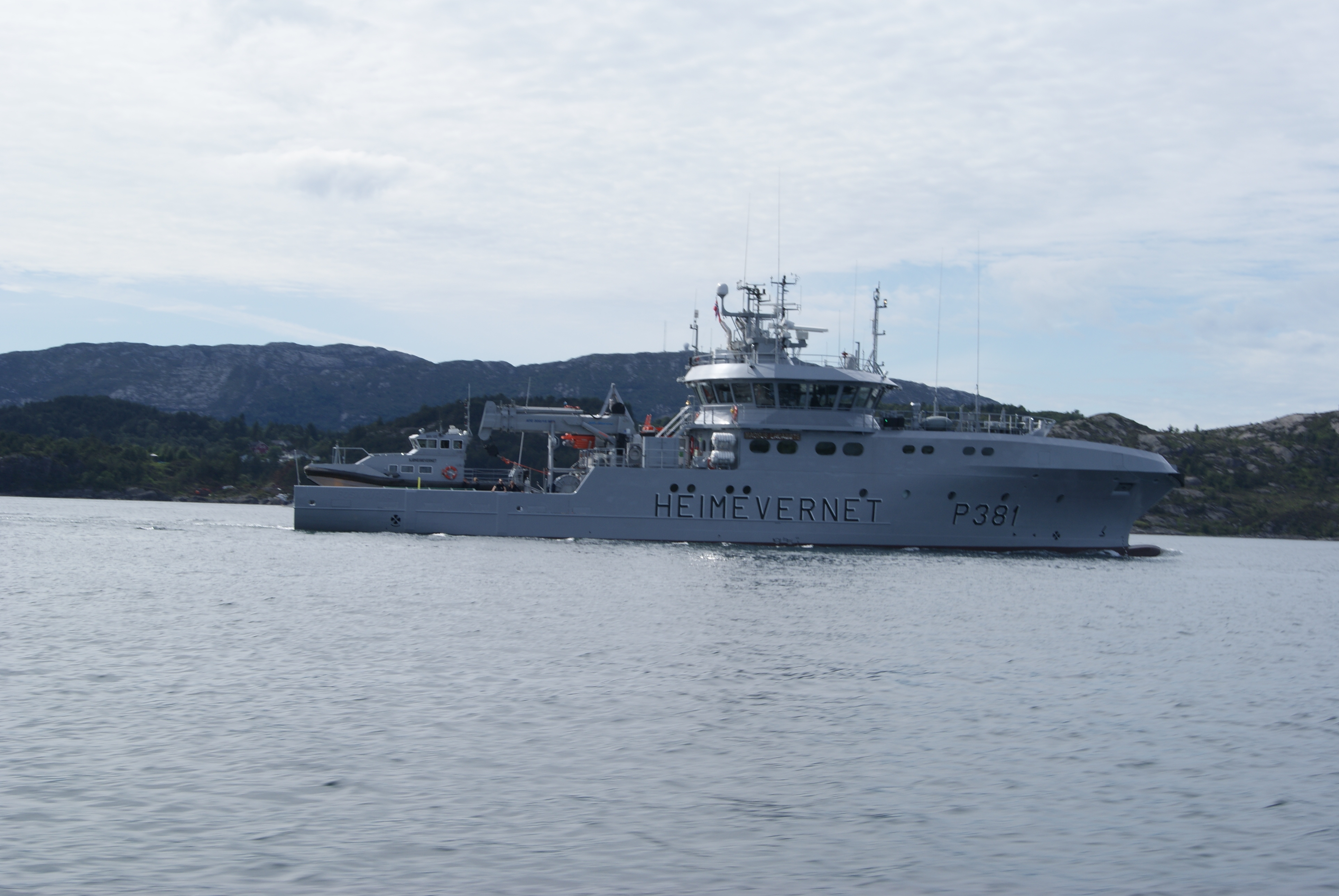 The Royal Nowegian Sea Home Guard (Sjøheimevernet) patrol ship SHV Magnus Lagabote (P381) in 2011.